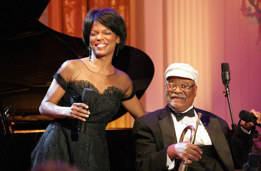 Jazz musicians Nnenna Freelon and Clark Terry perform at the White House on September 14, 2006, during the Thelonious Monk Institute of Jazz dinner.